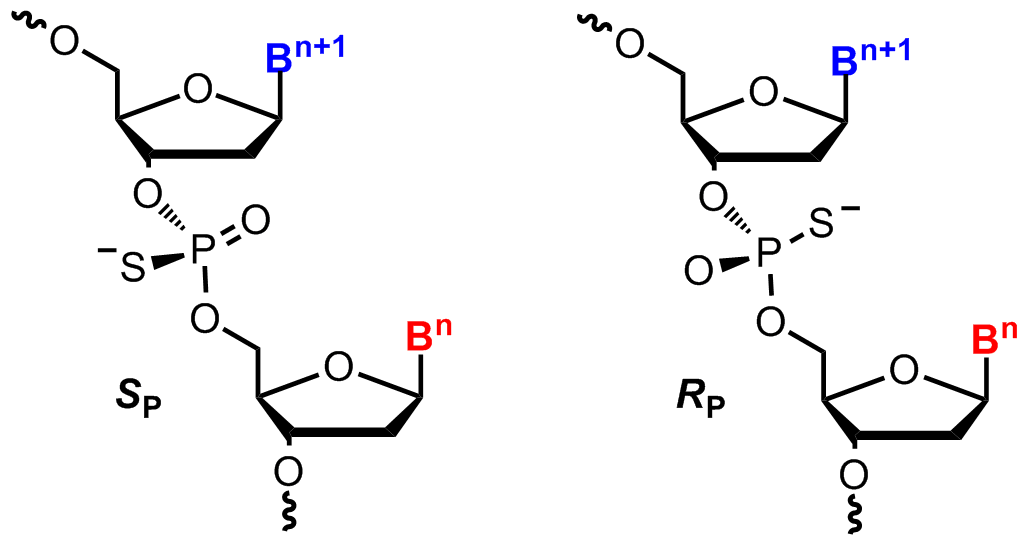 Phosphorothioate diastereomers